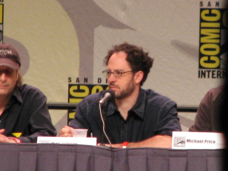 Matt Selman at CC 2007 at the Simpsons panel